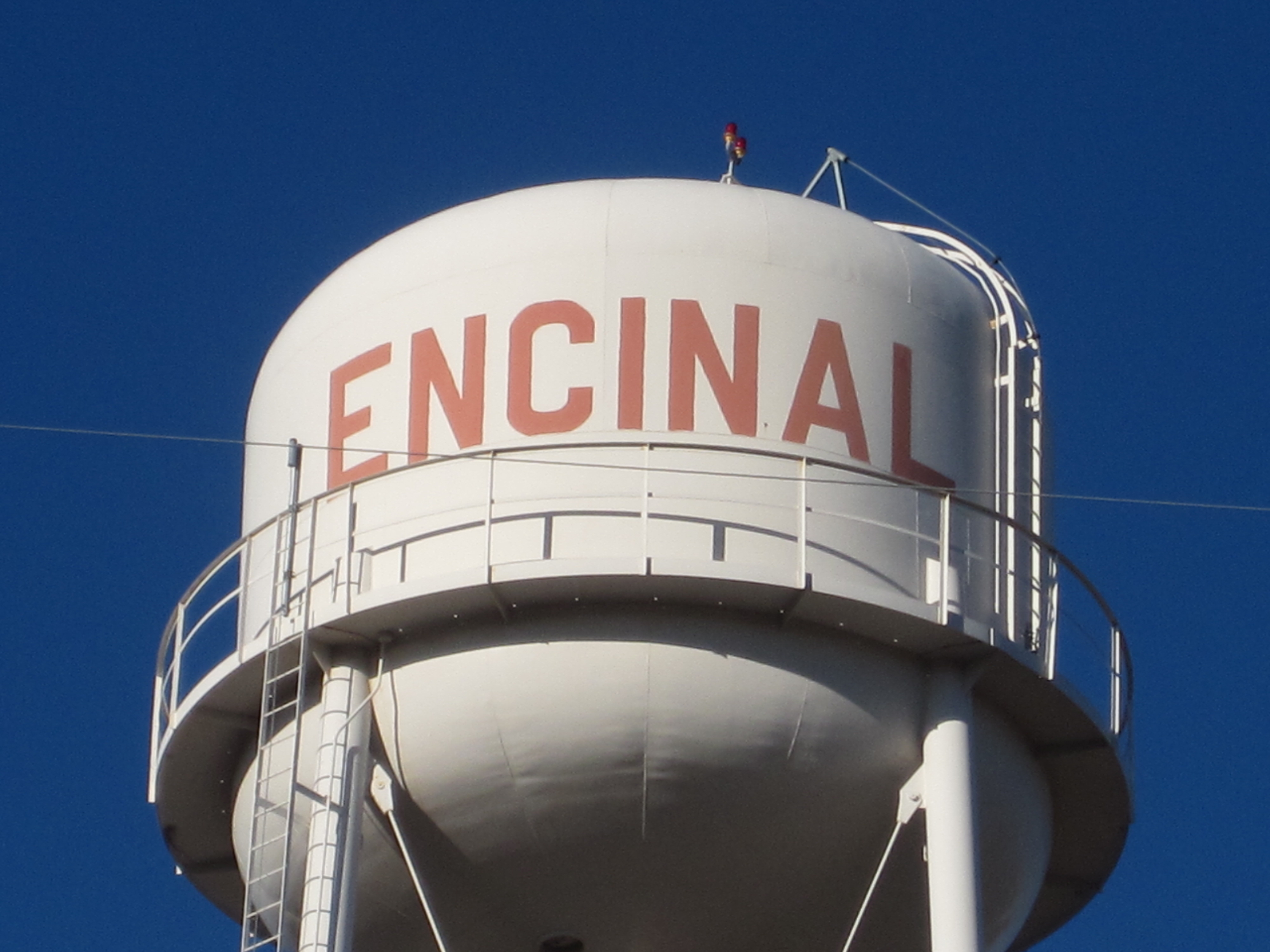 Picture of water tower in Encinal, TX